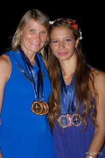 Natalia and Nataliia freedivers